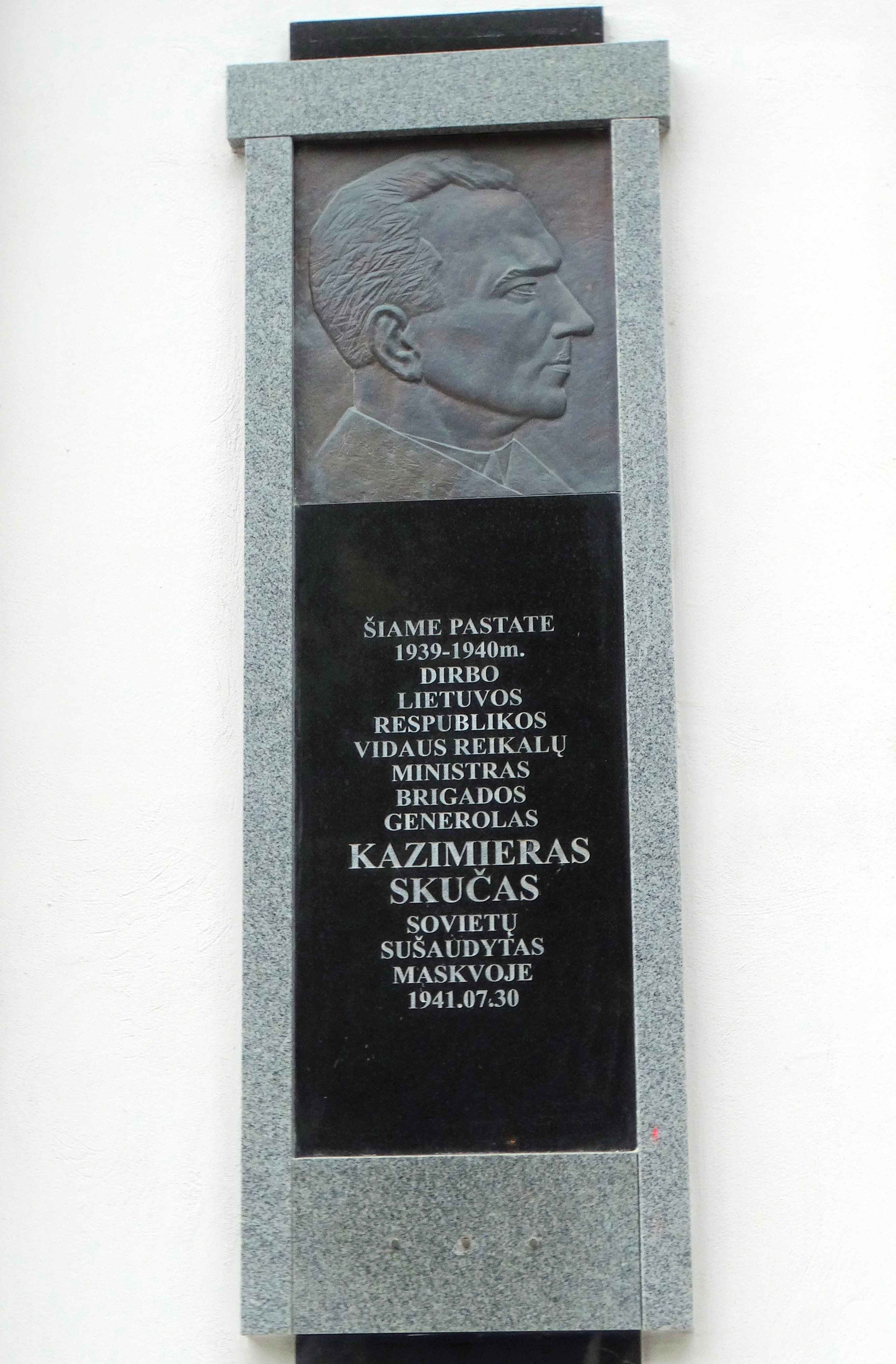 Memorial board to general Kazimieras Skučas. Kaunas, Lithuania